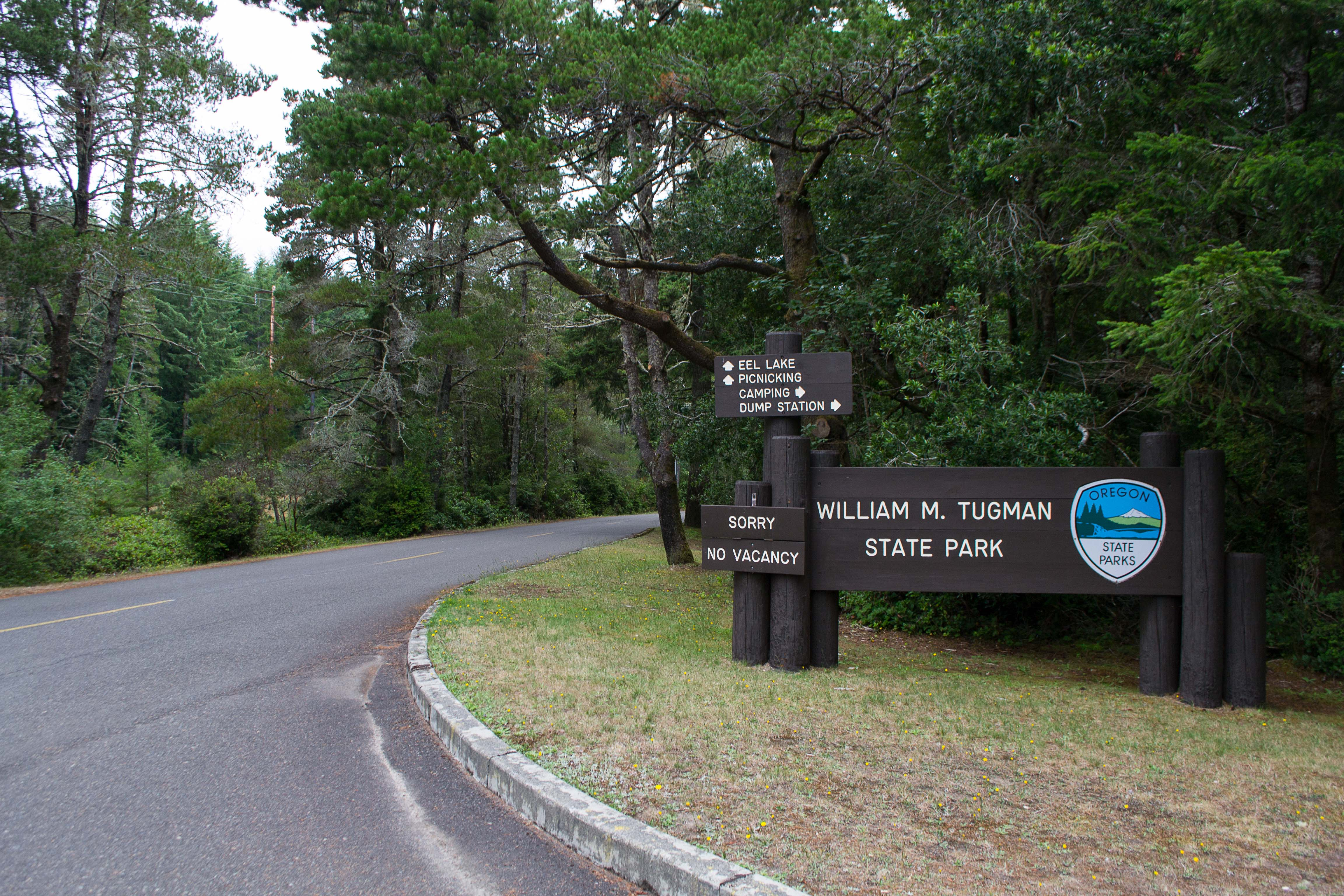 William M. Tugman State Park near Lakeside, Oregon